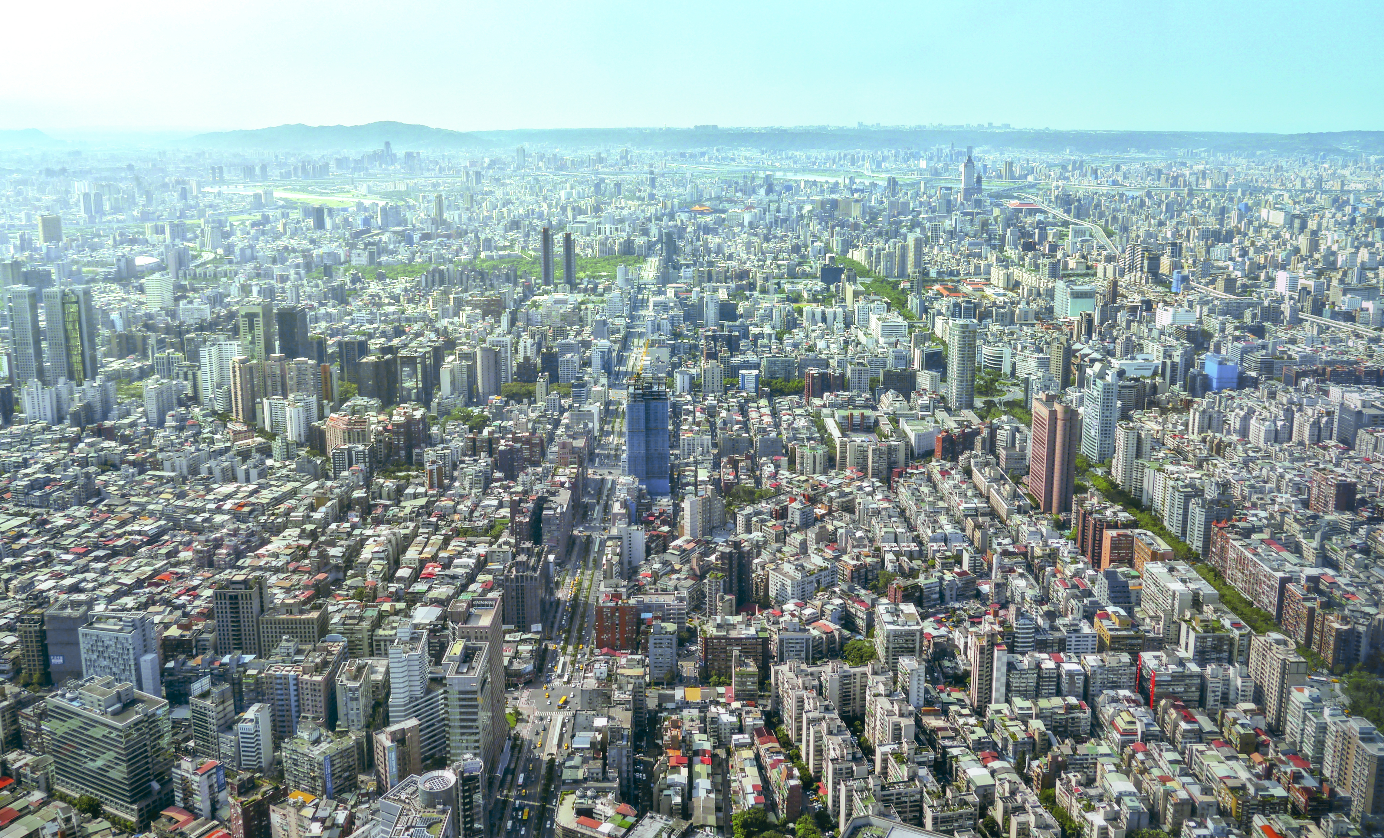 View from the Observation Deck of the Taipei 101 to Taipei, Taipei, Taiwan